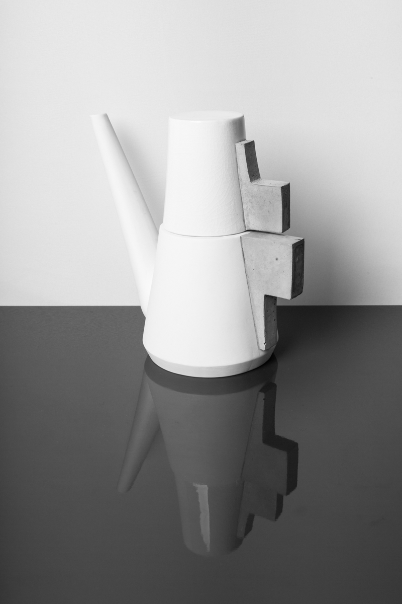 Concrete tablewear